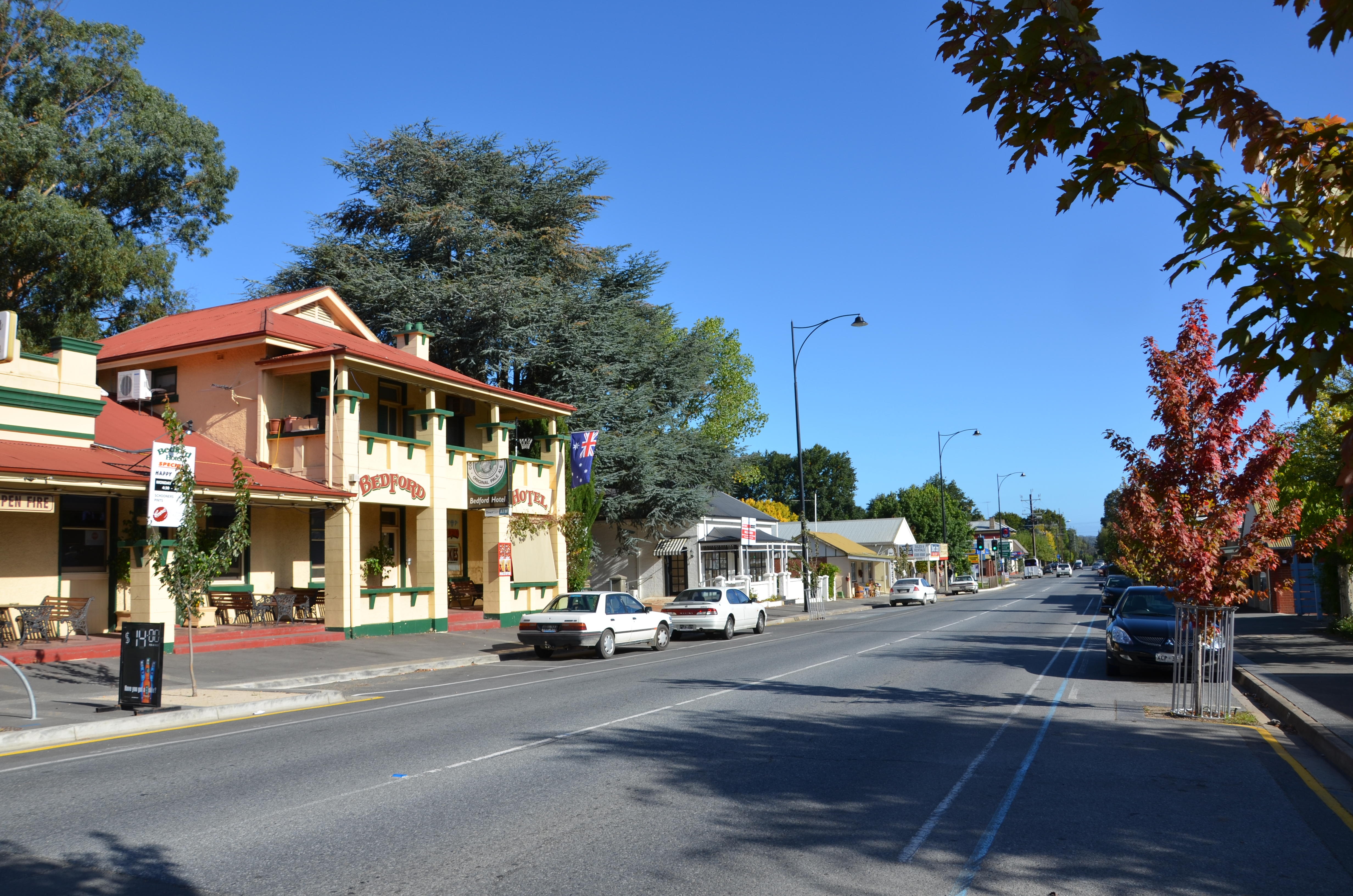 Main street of Woodside, South Australia. The Bedford Hotel is at left of frame.